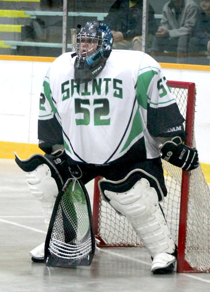 These images of Ontario Senior B Lacrosse Action action during the 2015 season are taken by Devan Mighton.